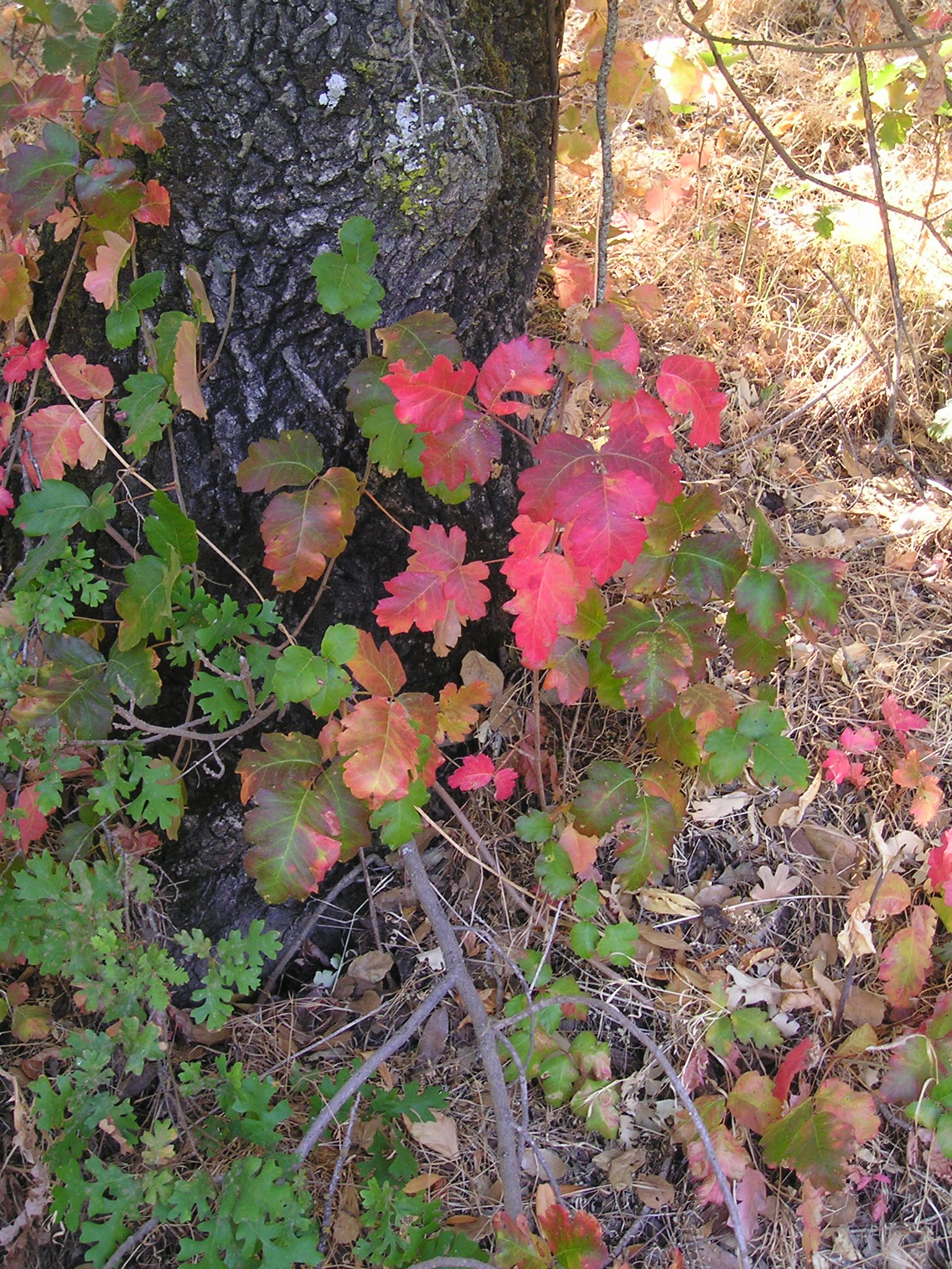 At the base of the tree, the bigger leaves are Poison-oak. The multilobed smaller bright green leaves belong to the oak tree itself. Taken at Almaden Quicksilver County Park, California.